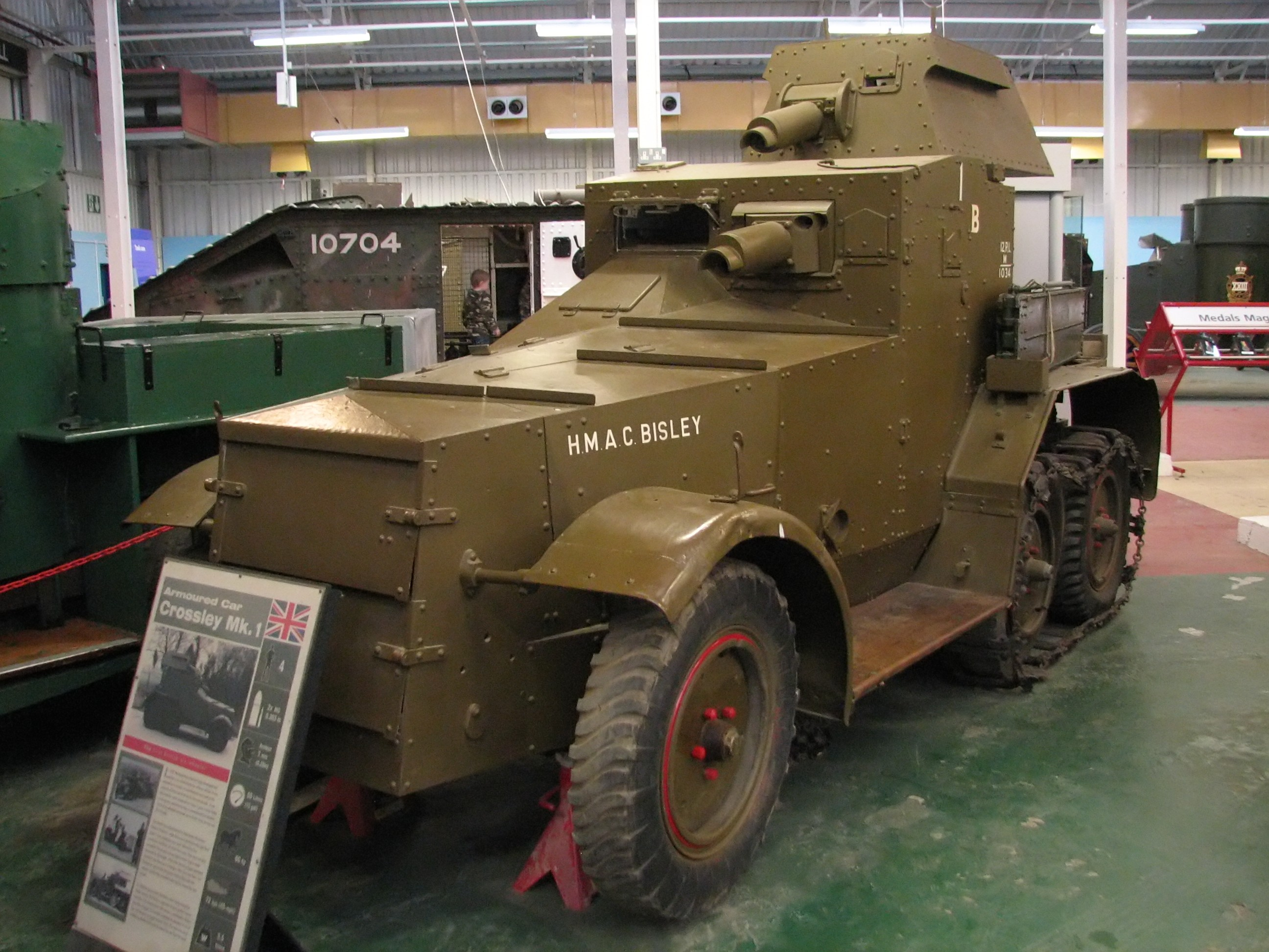 Crossley Armoured Car